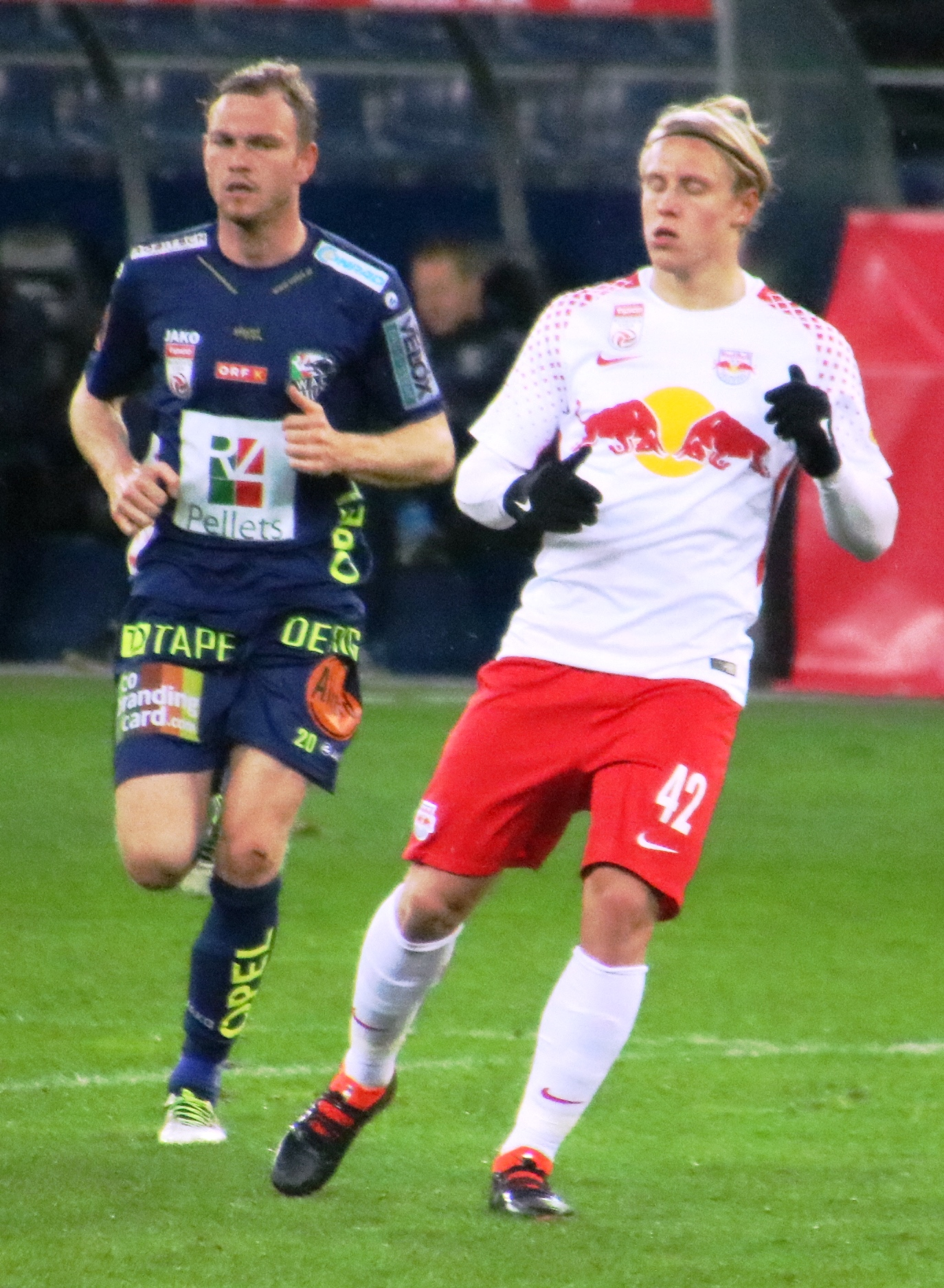 Bundesliga league match